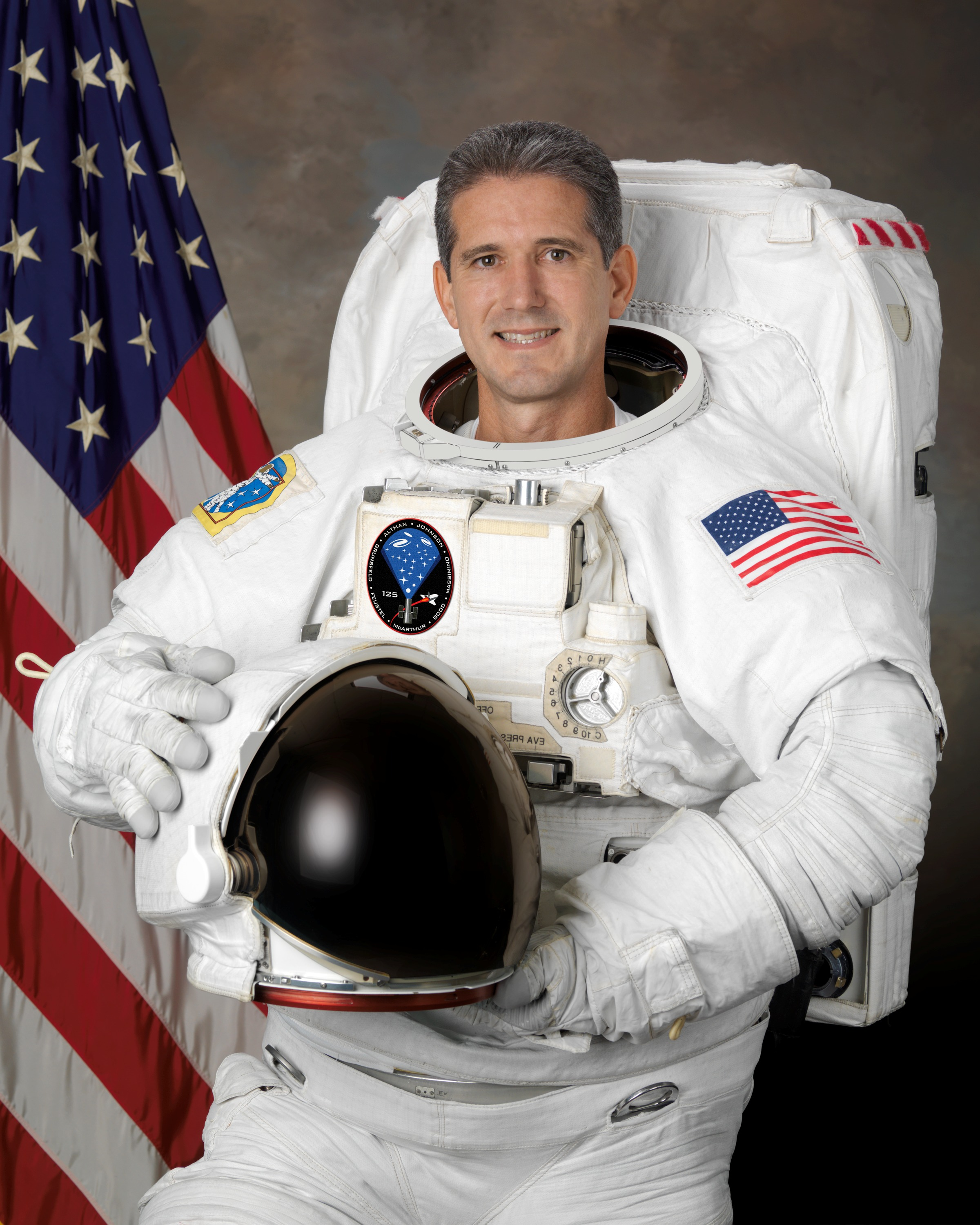 Official portrait image of NASA astronaut Michael T. Good